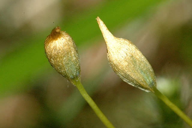 Picture taken in Commanster, Belgian High Ardennes . Species: Polytrichum juniperinum female